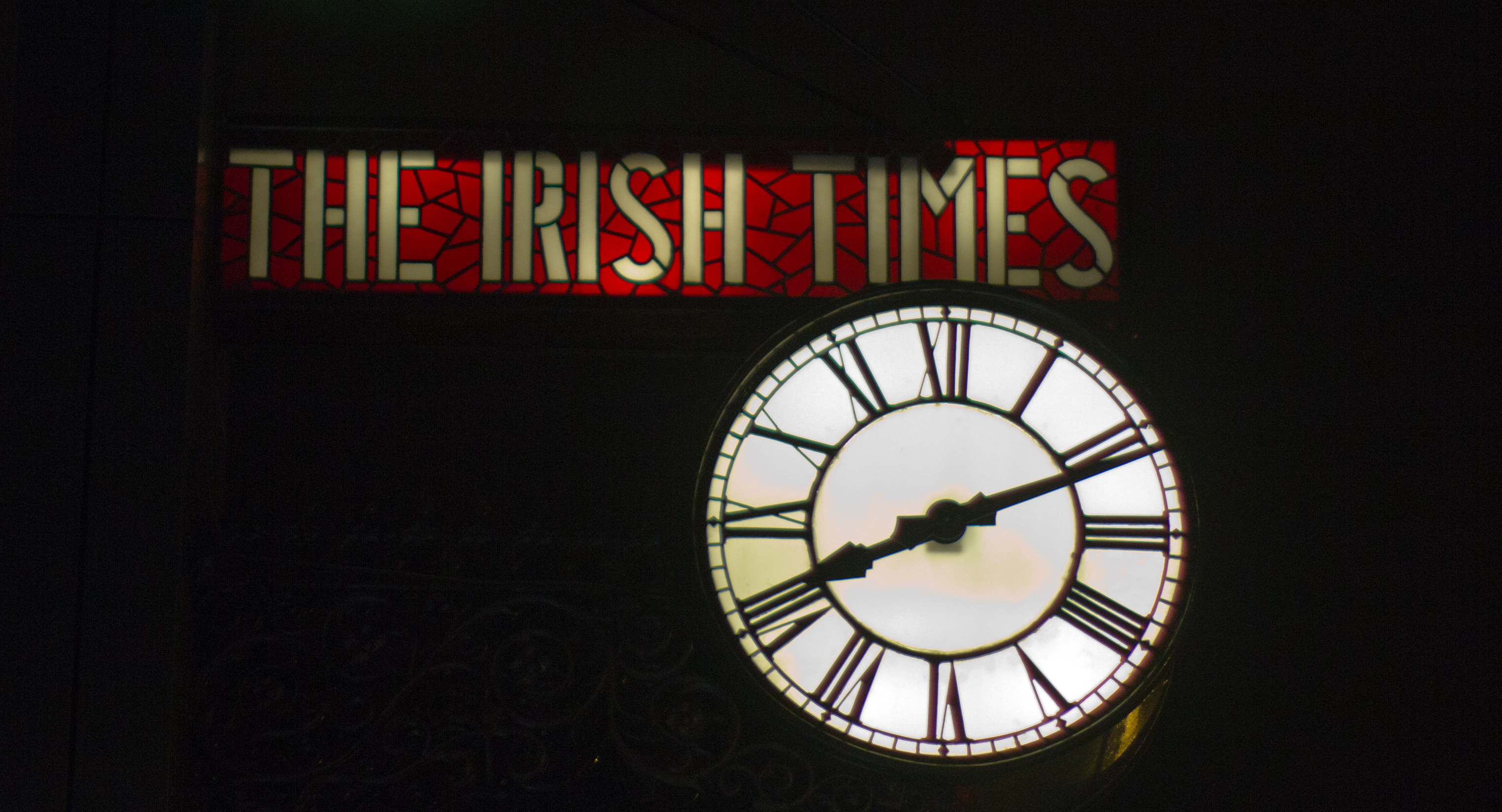 Ireland 2011